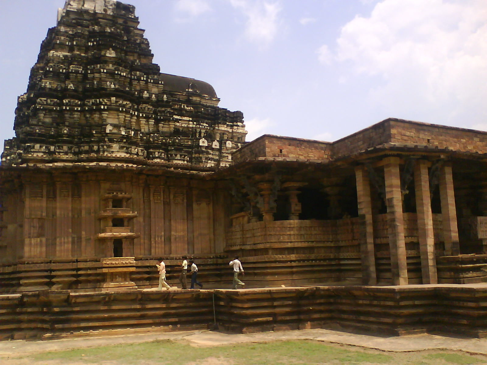 The great architectural marvel, Ramappa temple in Andhra pradesh, India.